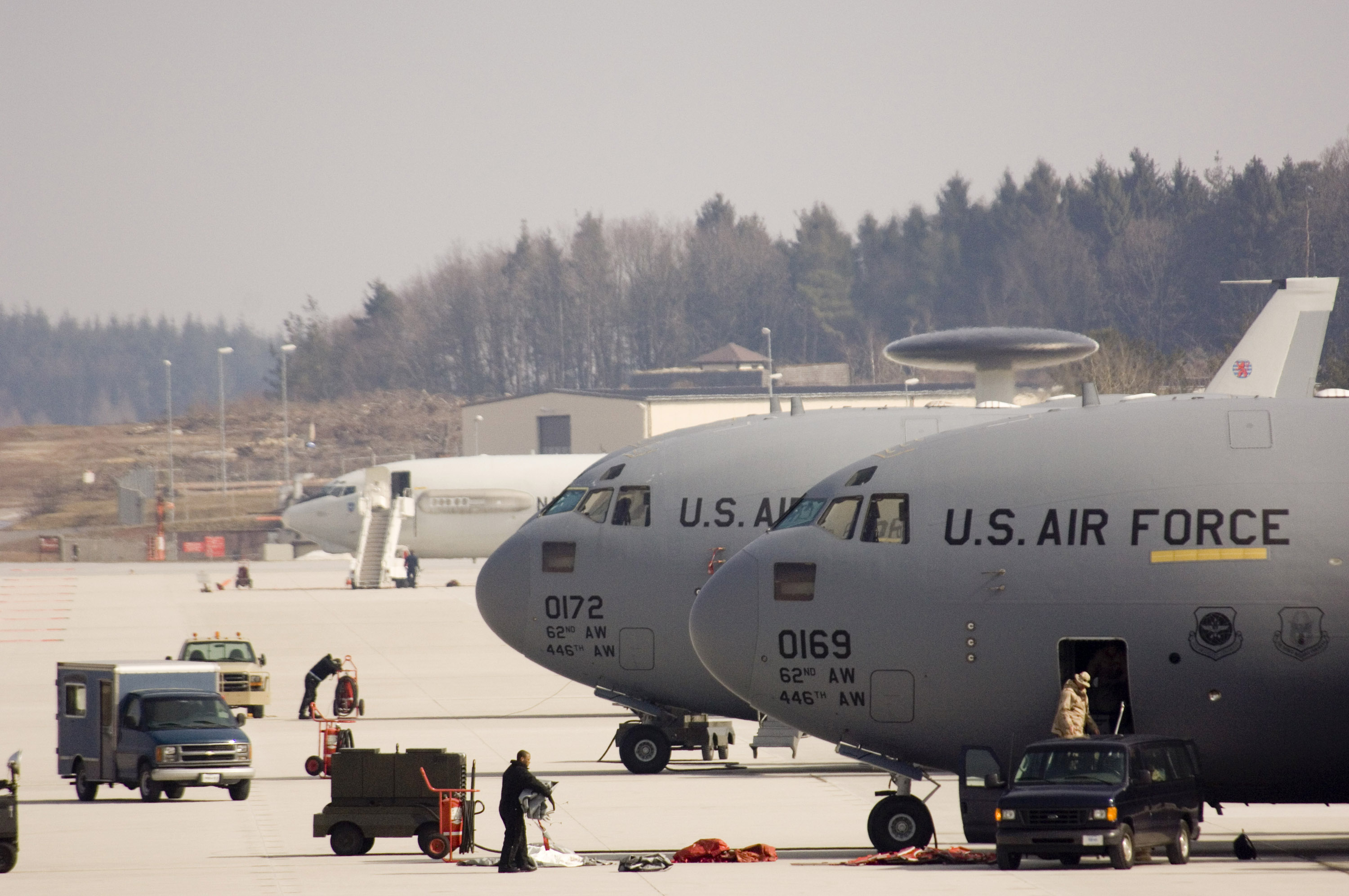 A pair of C-17 Globemaster IIIs and an E-3 Sentry (AWACS) sit on the tarmac at Spangdahlem Air Base, Germany, Wednesday, March 22, 2006. The transports, from McChord Air Force Base, Wash., and the NATO E-3 airborne warning and control system will receive services from Spangdahlem's 726th Air Mobility Squadron